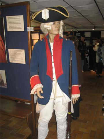 Uniform of the marines under Louis XV at the Museum of the 2nd regiment of marines